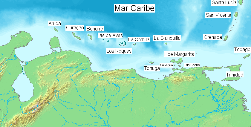 Major islands of the southern Caribbean Sea.